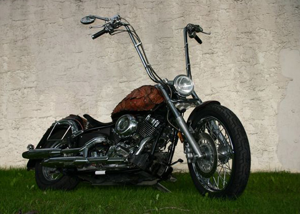 A motorcycle with very high ape hanger handlebars installed. These have a 24 inch rise. These are the highest standard production handlebars available. Other information I designed and owned this motorcycle. This was one of the photographs I used to sell the pictured motorcycle. I have more photographs in the series.